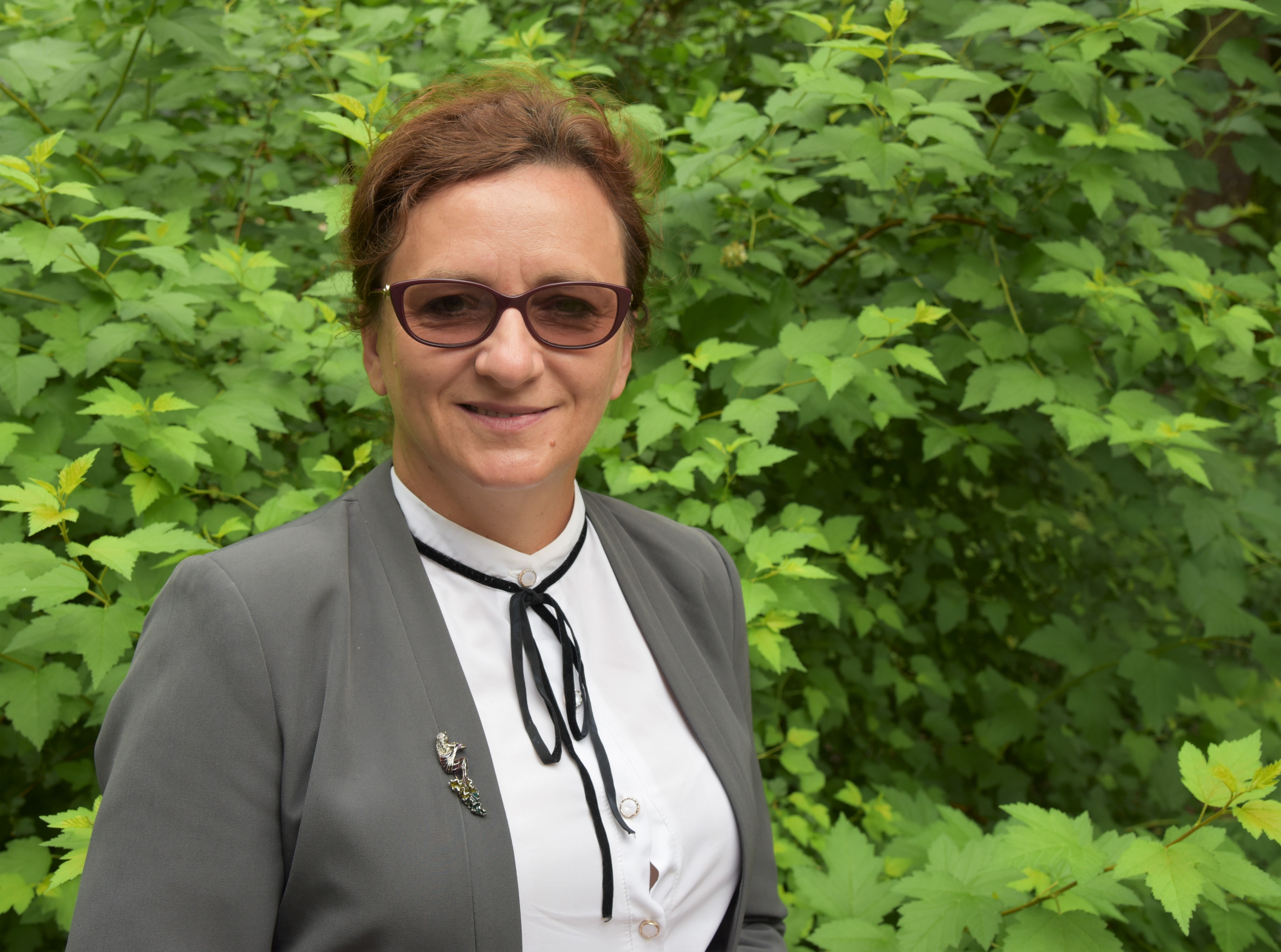 Agata Katarzyna Wojtyszek - Polish politician, teacher and local government official, voivode of Świętokrzyskie (2015–2019), MP in the Sejm of the 9th term. Busko-Zdrój, 8 July 2020